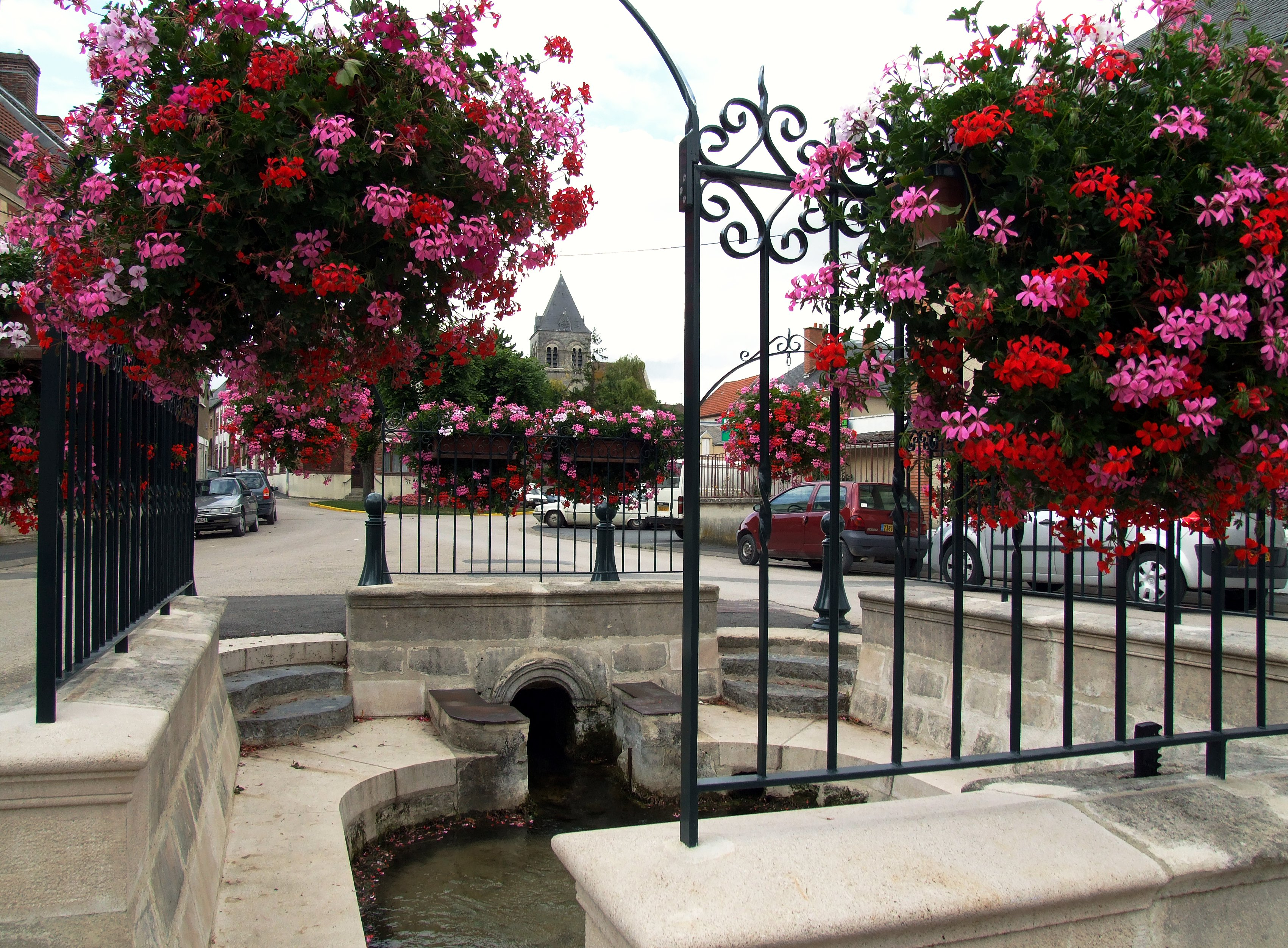 Vertus: The "great fountain" (grande fontaine) and the church